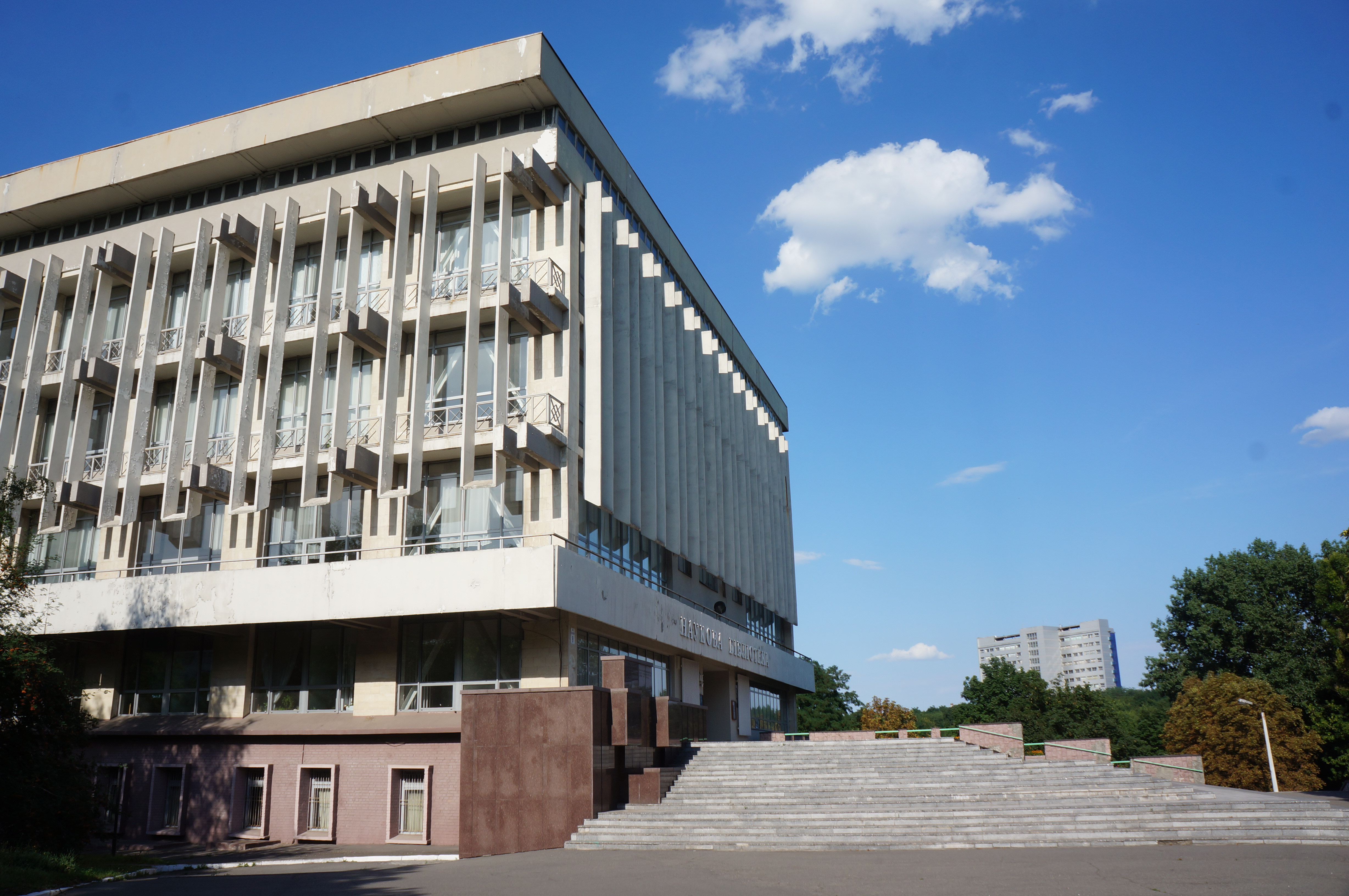 Scientific library of Dnipropetrovsk National University, with the main university building seen in the background.